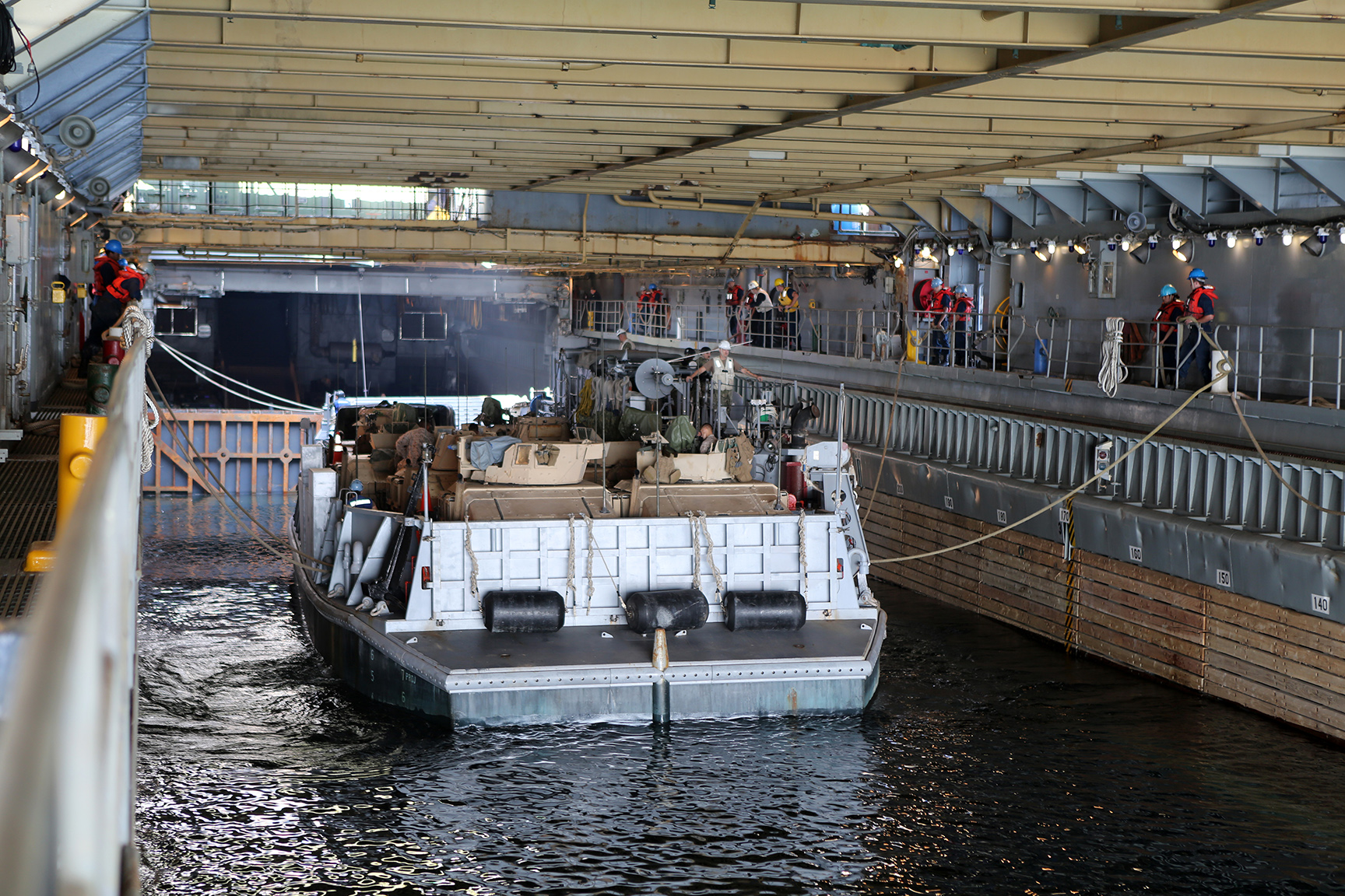 U.S. 5TH FLEET AREA OF RESPONSIBILITY (Dec. 7, 2014) – A landing craft utility (LCU) prepares to exit the well deck of the dock landing ship USS Comstock (LSD 45) to transport Marines and Sailors with the 11th Marine Expeditionary Unit (MEU), and the Comstock ashore in support of exercise Red Reef 15, Dec. 7, 2014. Red Reef, which has been in existence since 2007, is part of a routine theater security cooperation engagement plan between the U.S. Navy, U.S. Marine Corps and Royal Saudi Naval Forces that serves as an excellent opportunity to strengthen tactical proficiency in critical mission areas and support long-term regional security. (U.S. Marine Corps photo by Sgt. Melissa Wenger/Released)